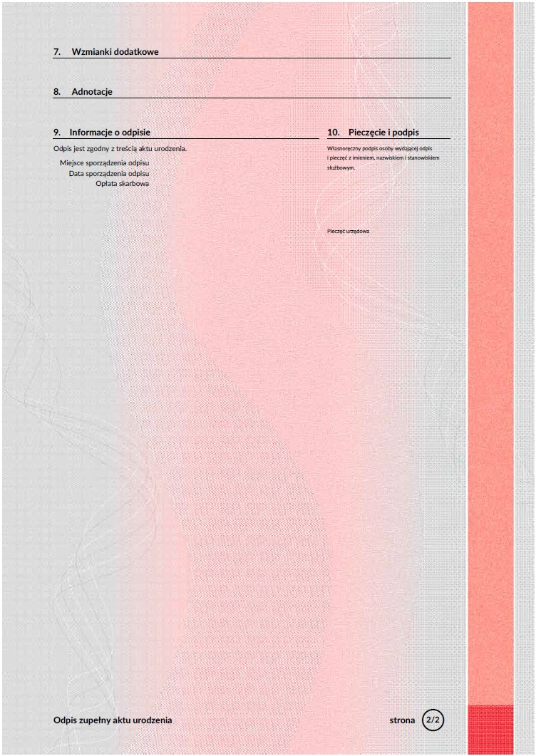 Polish birth certificate, page 2 of 2, new version since 2015